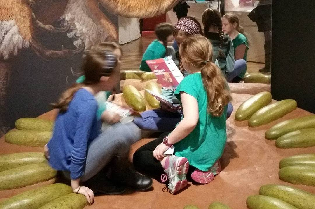 Sit on the replica #nest of a birdlike Gigantoraptor from a #China #dinosaur dig at #amnh #dinosamongus #travel.